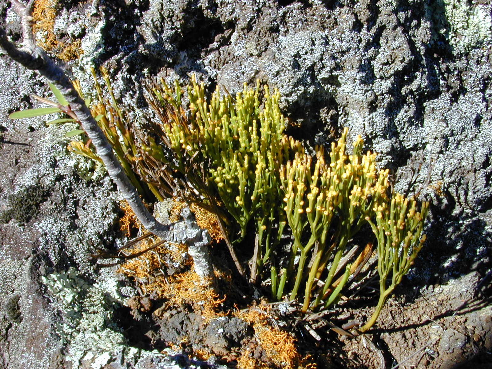 Psilotum nudum (habit). Location: Maui, Auwahi